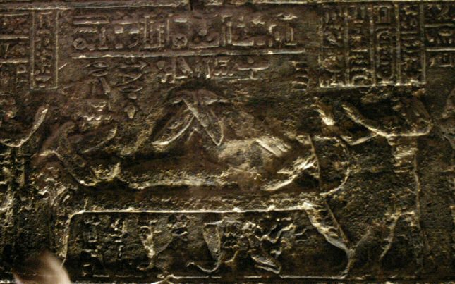 Temple of Denderah. Isis reviving Osiris. Image taken by Alex Lbh in April 2005.